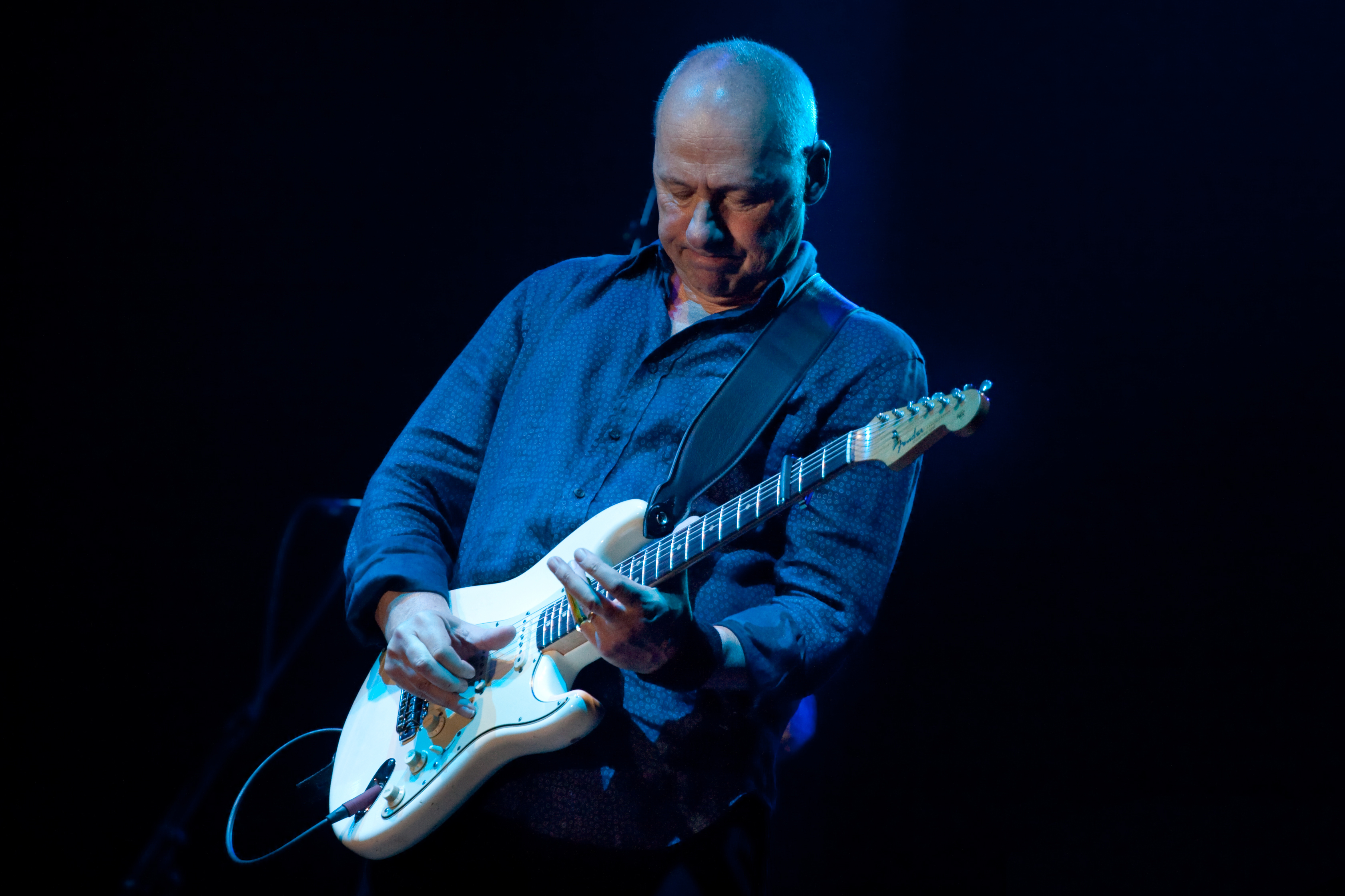 Mark Knopfler Zwolle 2013